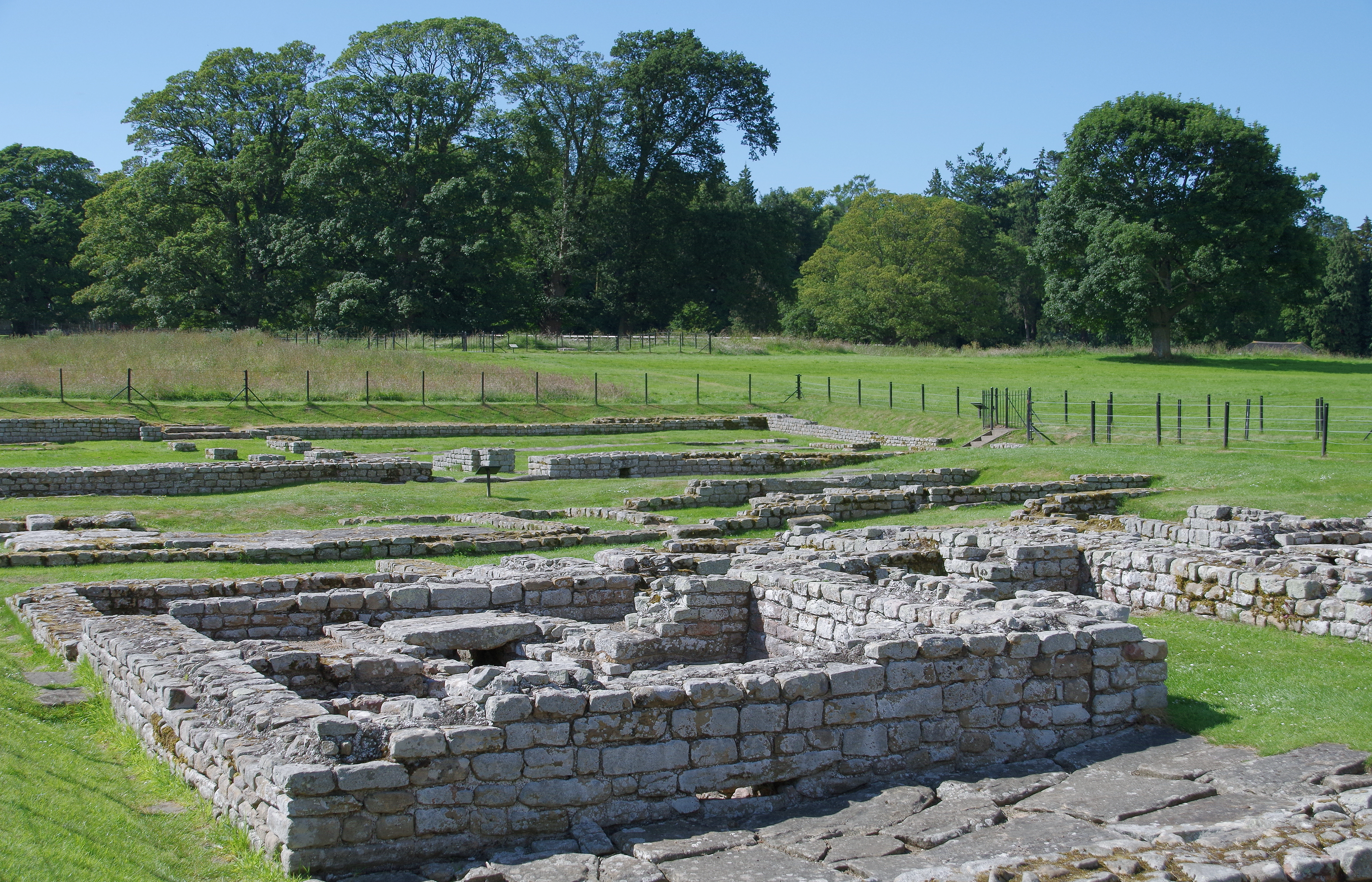 Cilurnum Roman Fort near Chollerford in Northumberland. This was a cavalry fort, built as part of Hadrian's Wall.